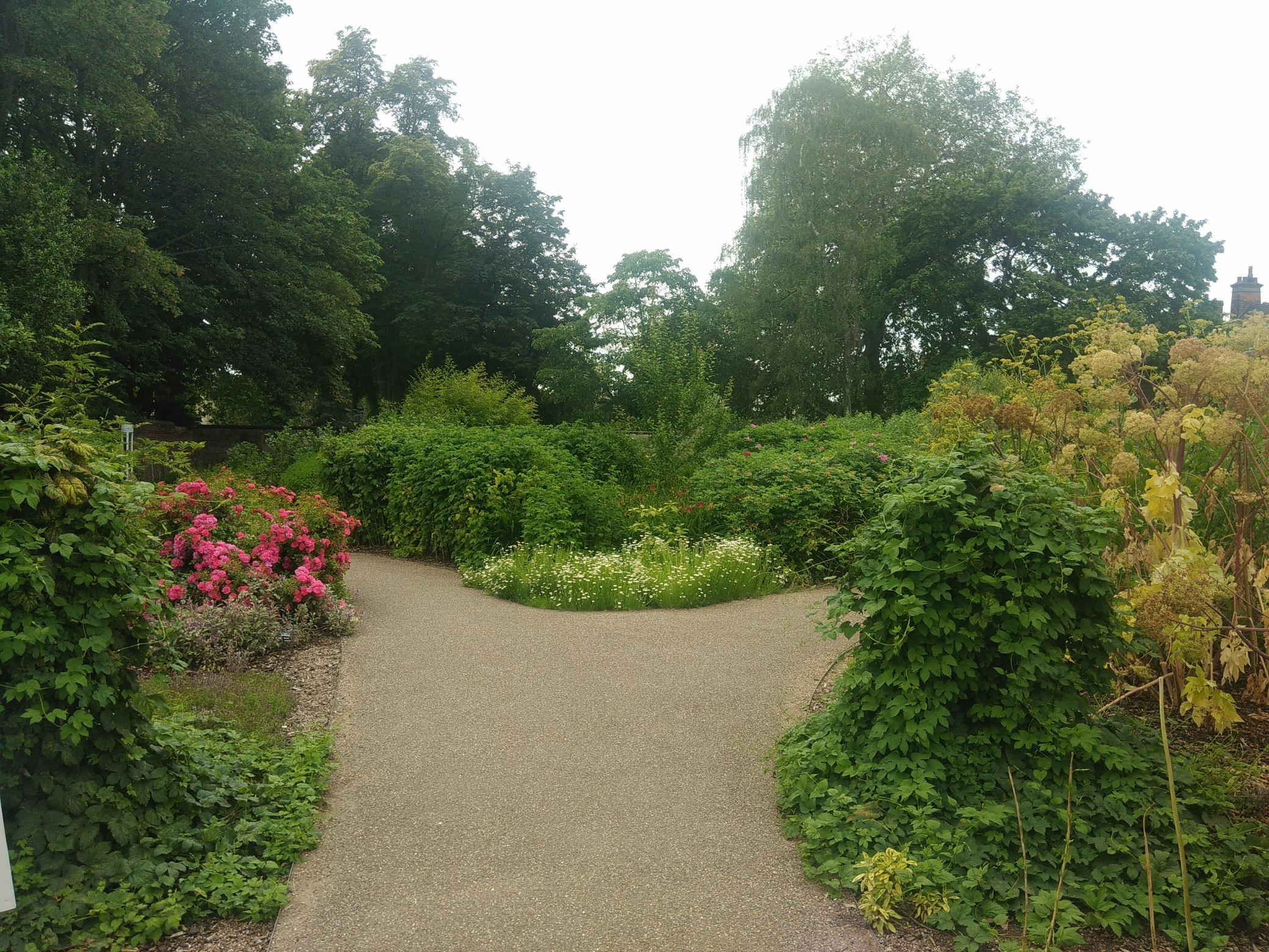 York Museum Gardens Edible Wood, Looking south, July 2019